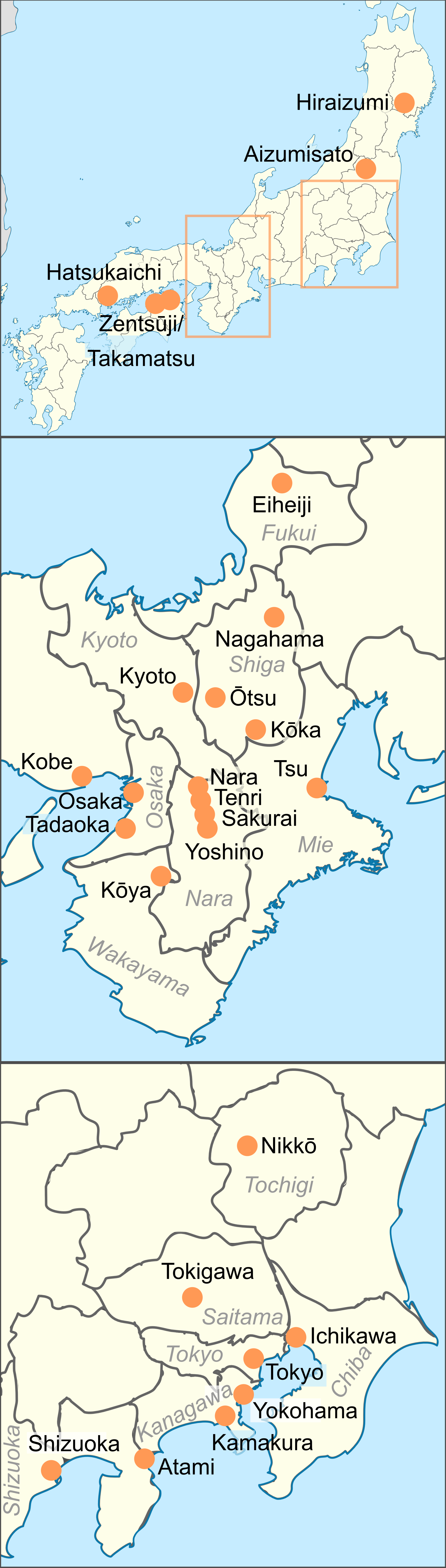 Map showing the location of National Treasures of Japan in the category writings (excluding Japanese and Chinese books)